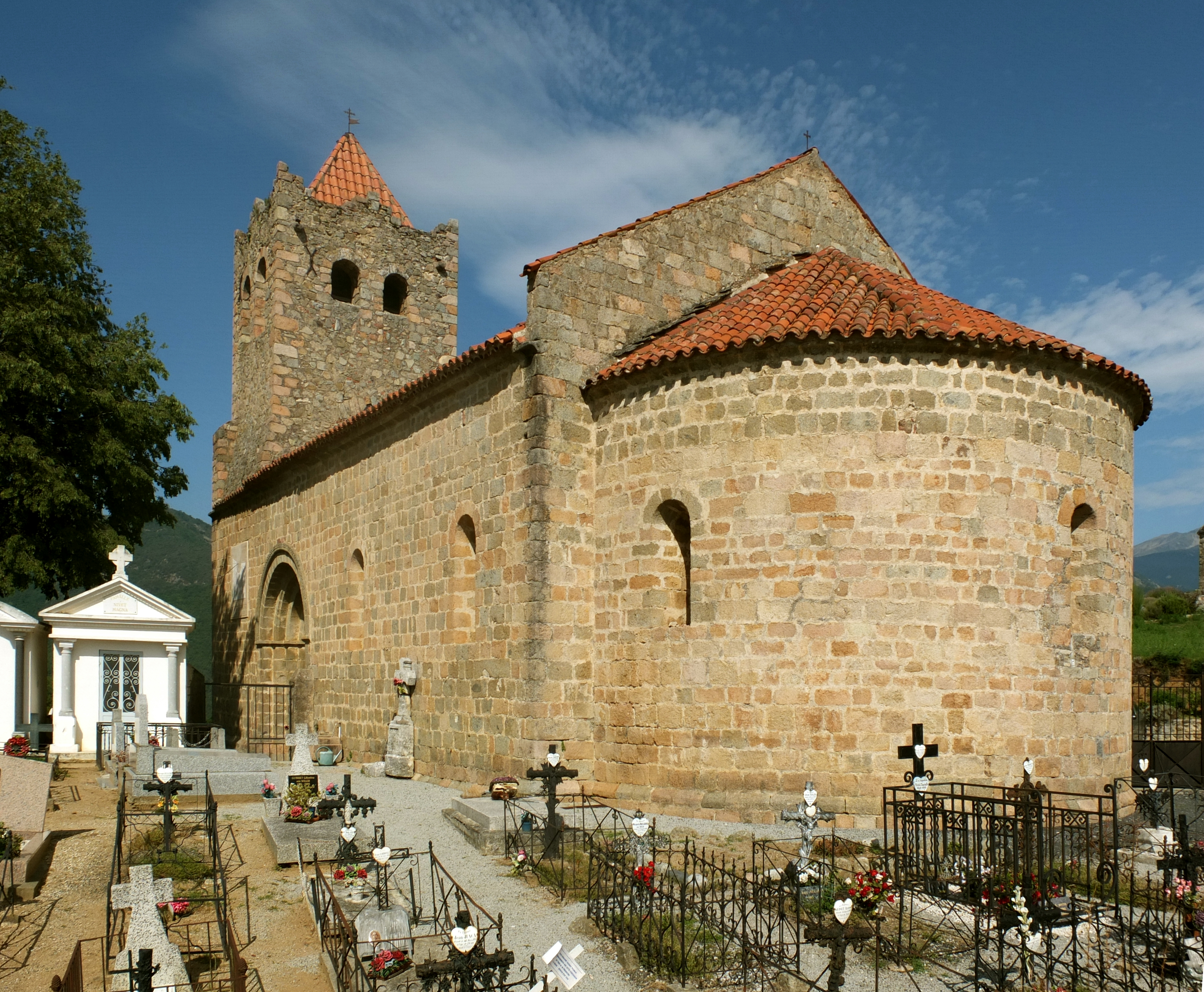 Romanesque Church Sainte-Marie de Serralongue, France (view E).